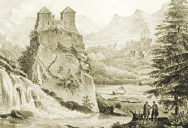 The fortress in Racha, Georgia. Illustration to a book by Gamba. 1820s.